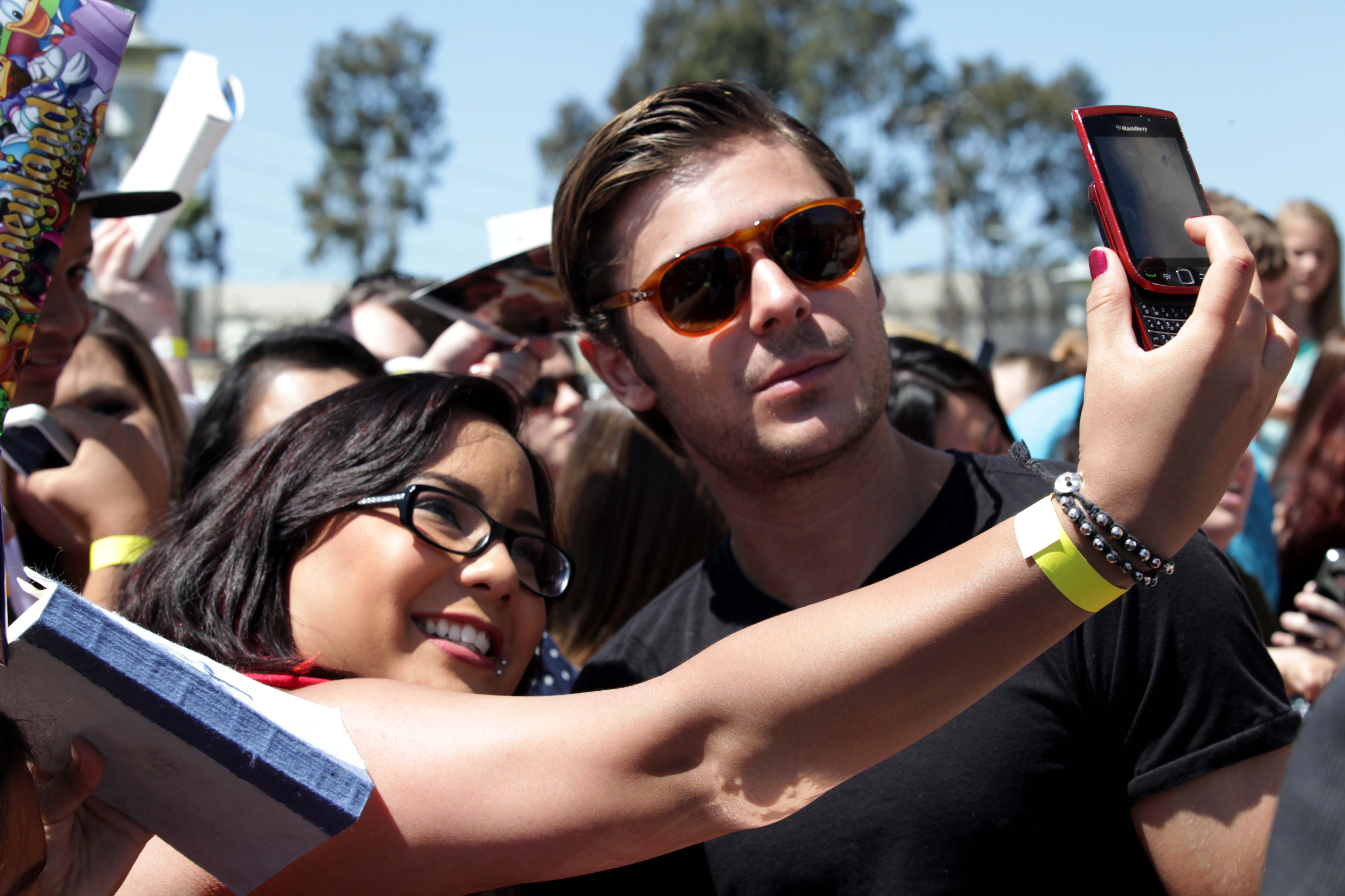 Zac Efron poses with fans aboard Marine Corps Base Camp Pendleton, Calif., before the screening of his latest film, The Lucky One, at the Camp Pendleton Bulldog Box Office movie theater, April 14. The young actor, best known for his role in The High School Musical trilogy, was also accompanied by co-star Taylor Schilling and film director Scott Hicks. The Lucky One is scheduled for release April 20.